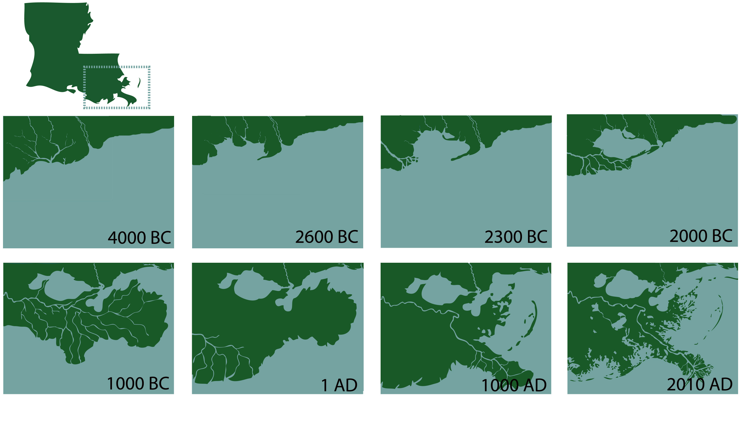 Coastal Change Diagram of South Easter Louisiana